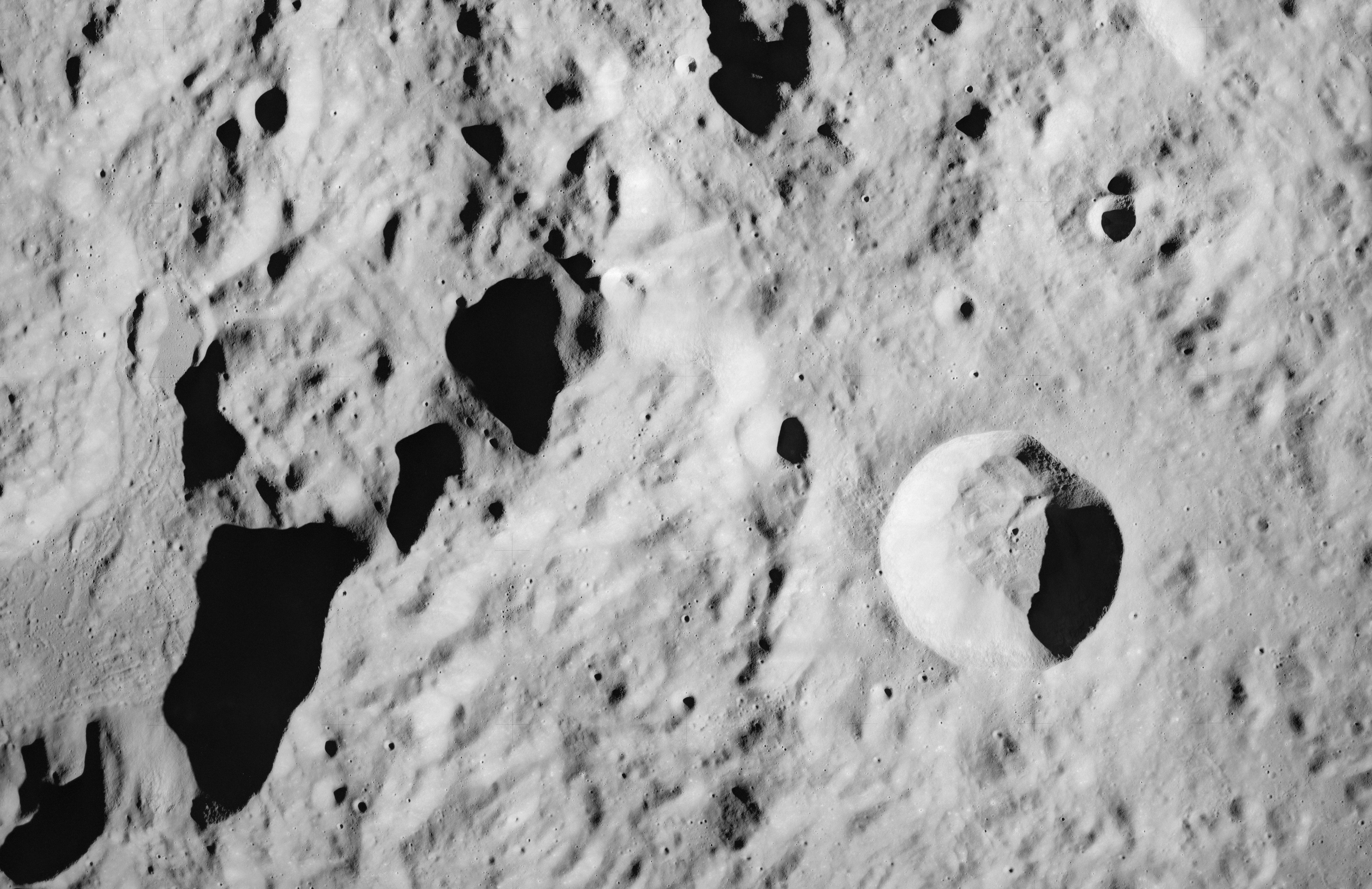 Conon crater (right) and Mons Bradley (left) from Apollo 17. This image was taken during the mapping metric on revolution 49 from an altitude of 116 km. The picture was reduced in size 50%, cropped to just show Conon and surroundings, then rotated 90° counter-clockwise so that north is to the top.